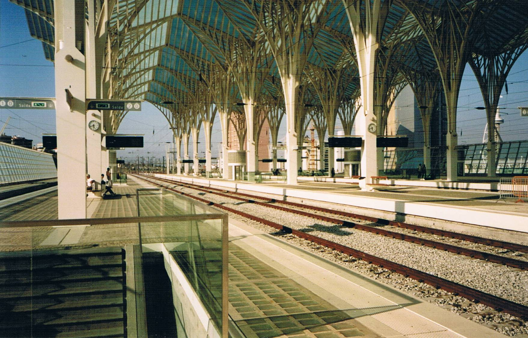 Photo taken in 11 September 1999 by a analog camera, Canon Prima S Macro, depicting the Gare do Oriente as it was.